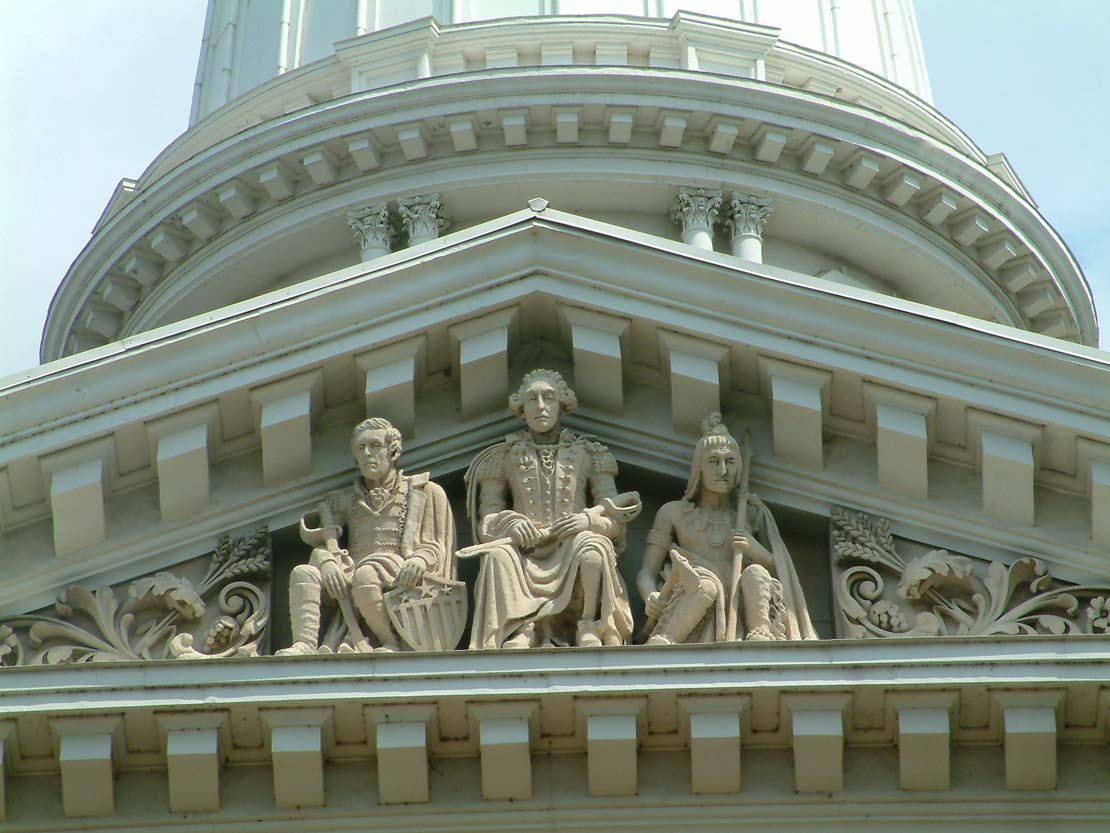 A picture of a pediment in the Tippecanoe County Courthouse in Lafayette, IN, USA featuring statues of William Henry Harrison, Lafayette and Tecumseh;[1] sometimes identified as George Rogers Clark, George Washington and Tecumseh.[2] It was built in the 1880s, so it is out of copyright.